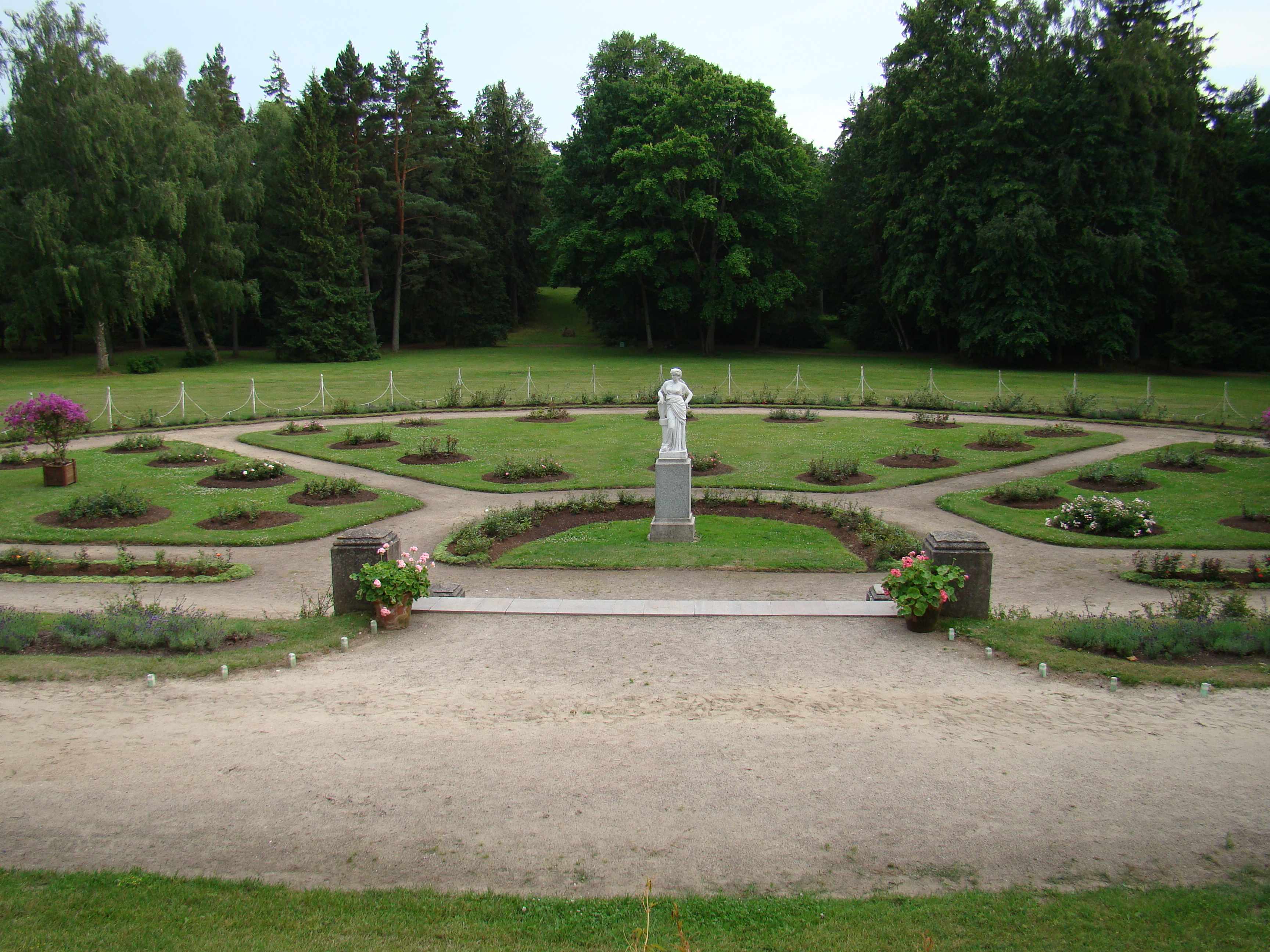 Palanga garden by Édouard André